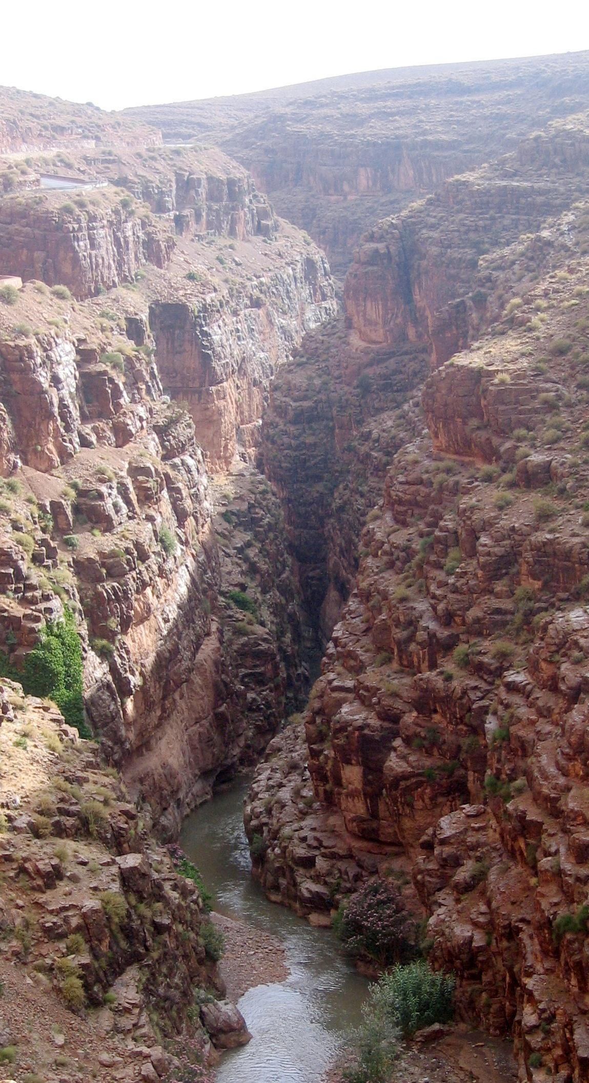 Dades gorges in the Anti-Atlas mountain range, Morocco